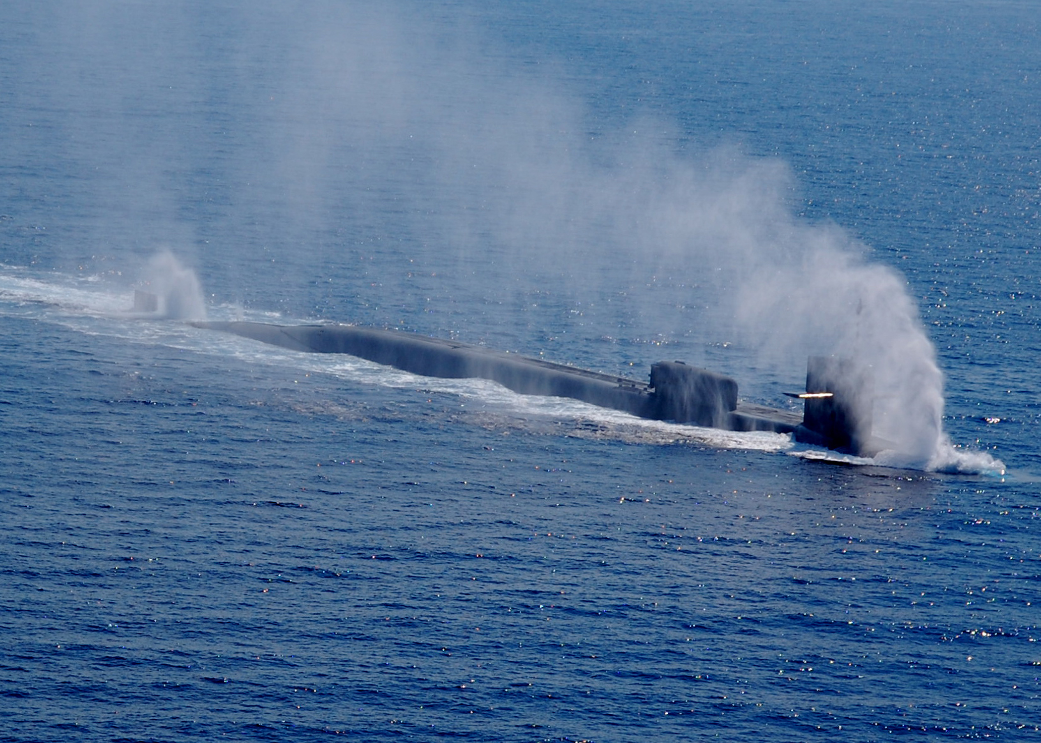 NAPLES, Italy (Aug. 22, 2009) The Ohio-class guided-missile submarine USS Georgia (SSGN 729) begins to submerge after a port visit to Naples, Italy. Georgia, home ported at Naval Submarine Base Kings Bay, Ga., is on her maiden operational SSGN deployment since converting from a ballistic missile submarine to a guided-missile submarine. (U.S. Navy photo by Mass Communication Specialist 1st Class John Parker/Released)